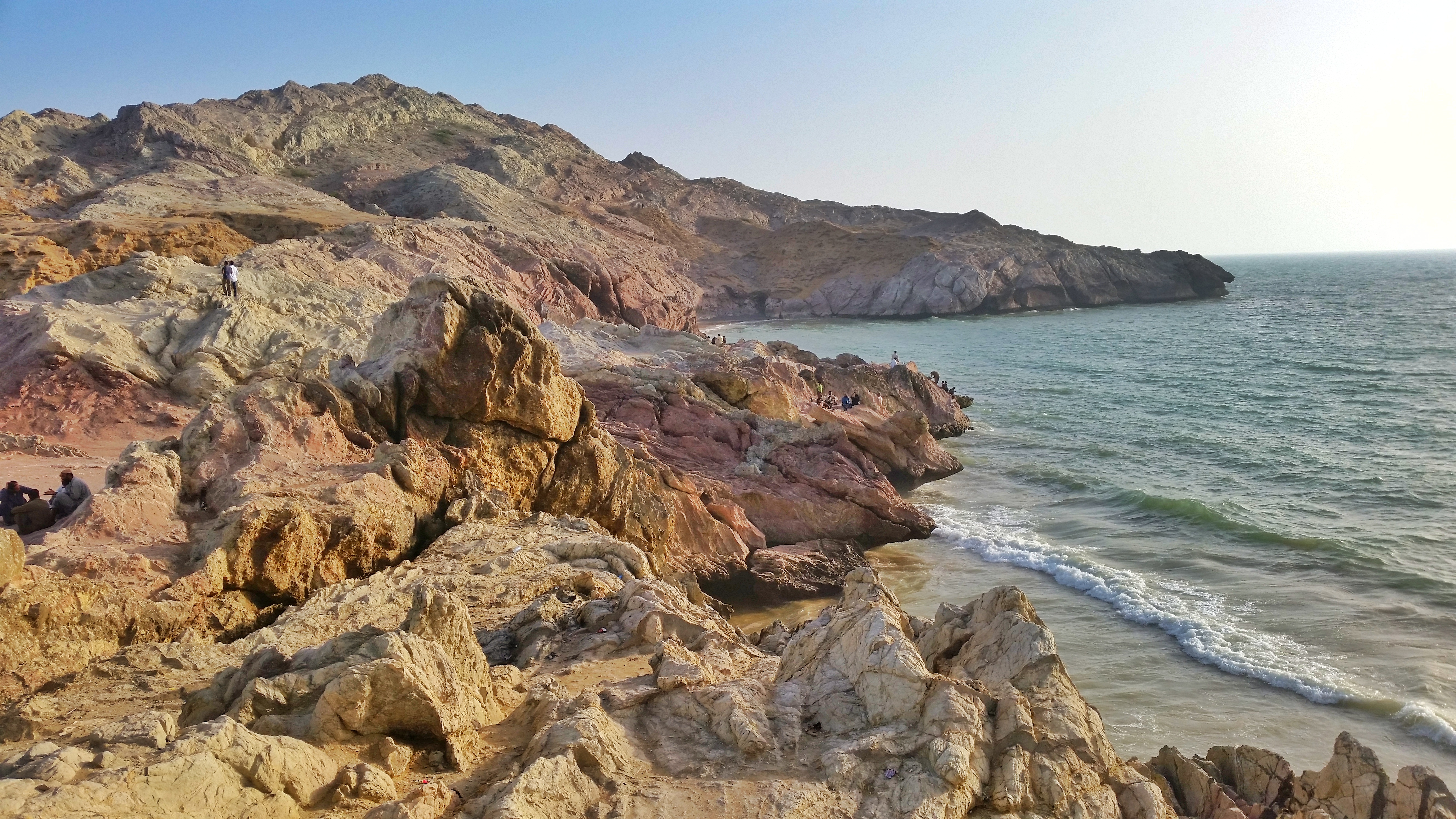 Mountain View